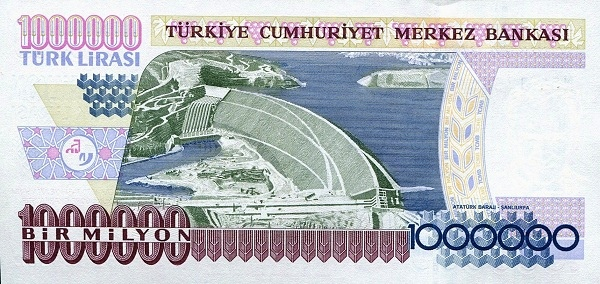 1 Million TL